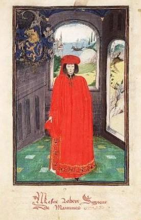 Statuts, Ordonnances et Armorial de l'Ordre de la Toison d'Or (Statutes, Ordonnances and armorial of the Order of the Golden Fleece) Place of origin, date: Southern Netherlands; 1473. Added sections: Southern Netherlands; 1478 or shortly after and 1491 or shortly after Material: Vellum, ff. 86, 249x187 (167x106) mm, 23 lines, littera cursiva (lettre bourguignonne). French. Binding: 18th-century brown leather Decoration: 1 full-page miniature (170x115 mm) with border decoration; 92 miniatures (185/155x120/100 mm); 1 historiated initial (80x90 mm) with border decoration; decorated initials with border decoration (ff., Added section: miniatures ; 4 drawings for miniatures (not finished) Provenance: Presented in 1473 by Gilles Gobet, King of Arms of the Order of the Golden Fleece, to Charles the Bold, Duke of Burgundy and the other Knights during the Chapter of the Order held at Valenciennes; Treasure of the Golden Fleece, Brussls; taken away by the Treasurer C.-F. Humyn (d. 1735) or his daughter C.Ch. de Corte; by legacy to her daughter M.-L. de Corte, wife of Ph.-E. de Poederlé; purchased in 1781 at the Poederlé sale by G.-J- Gérard of Brussels; acquired in 1832 as part of the Gérard collection (no. A 27)